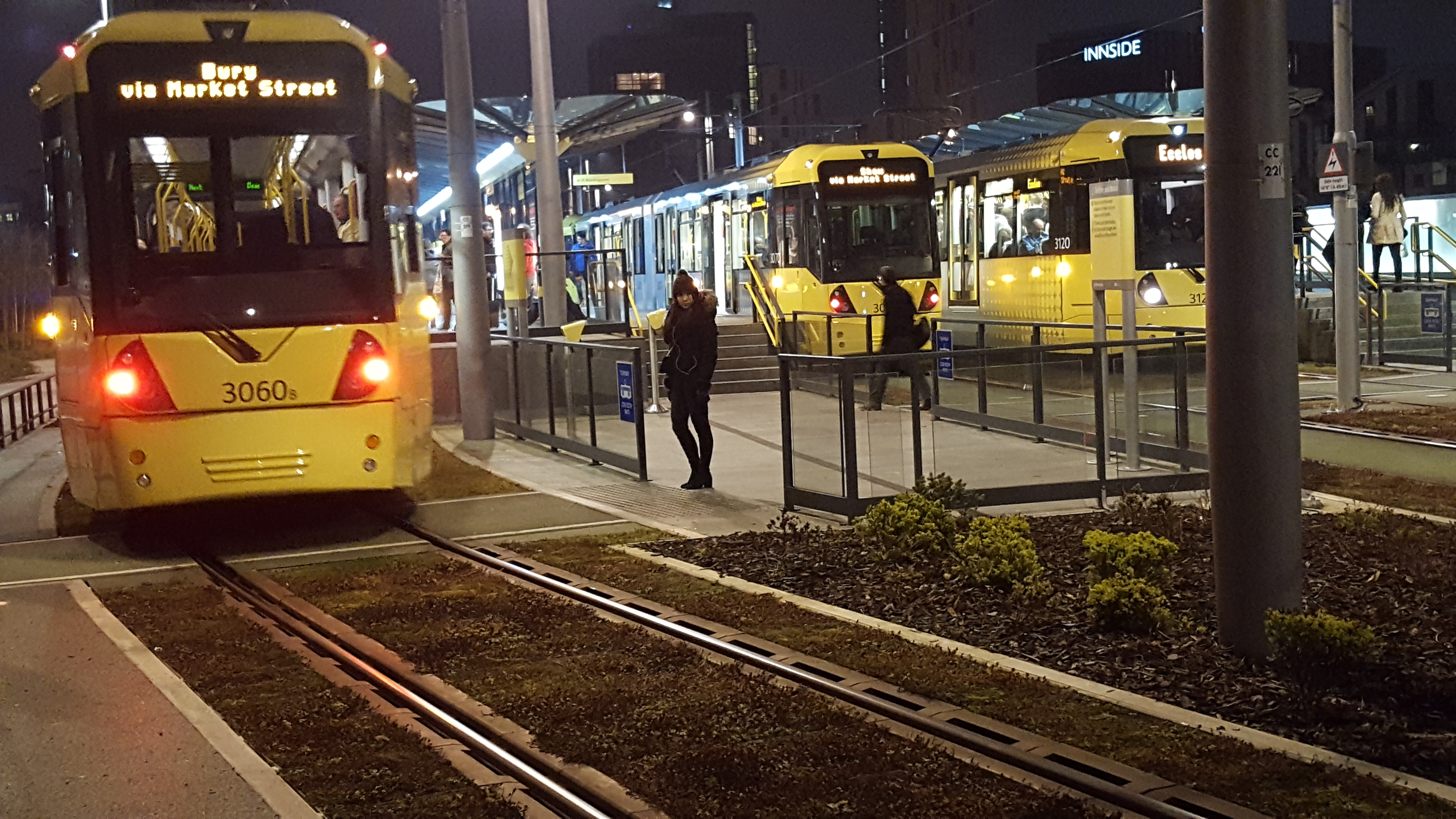 The new Metrolink platform arrangement 2016